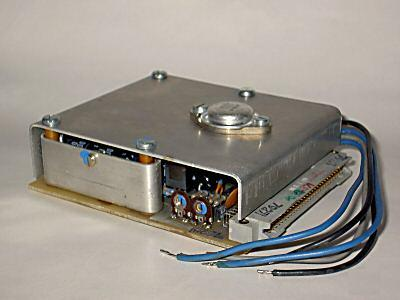 Power supply module for Robotron Z1013